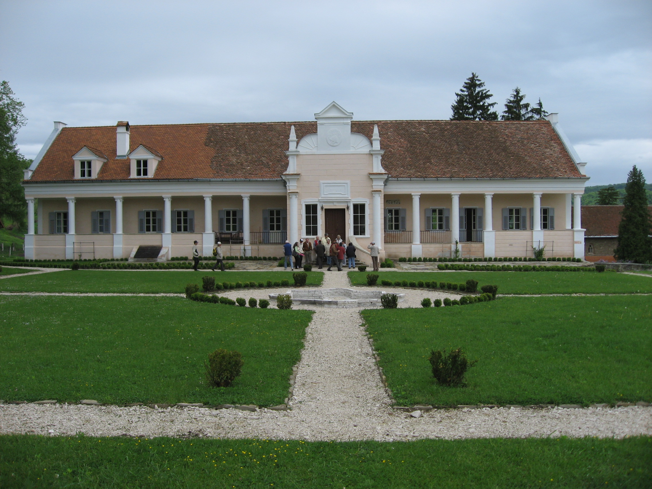 Manor of the hungarian noble family Apafi in the transylvanian village of Mălâncrav (German: Malmkrog, Hungarian: Almakerék)